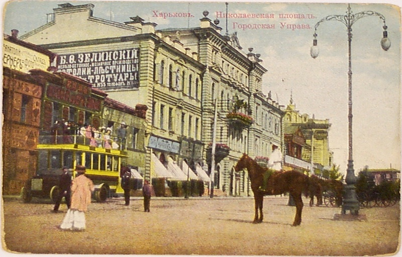 Nikolaevskaya Square in Kharkov